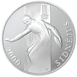 50 litas coin issued to mark the games of the XXVII Olympiad (Sydney, Australia) Silver Ag 925 Quality proof Diameter 38.61 mm Weight 28.28 g The words on the edge of the coin: NUGALI STIPRUS DVASIA IR KUNU (THOSE STRONG IN SPIRIT AND BODY SHALL BE VICTORIOUS) The designer of the coin is Antanas Zukauskas Mintage 4,000 pcs Issued 2000 Distribution terminated 2005 Distributed 2,448 pcs The coin was minted at the state enterprise Lithuanian Mint.